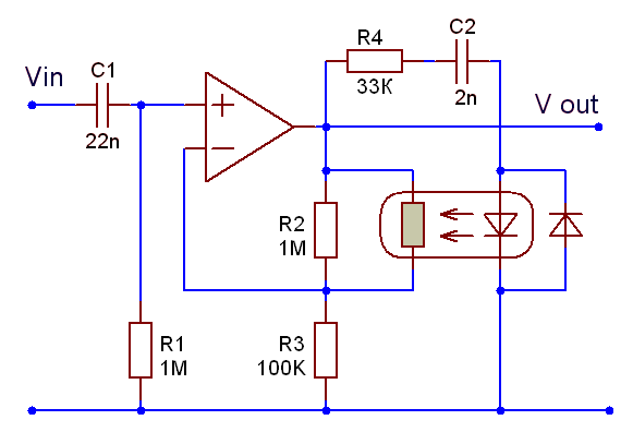 Basic +20dB, automatic gain control cell - as used in 1970s telephone networks. Adapted from A. V. Yushin (1998, in Russian). Оптоэлектронные приборы и их зарубежные аналоги (Optoelectronnye pribory i ih zarubezhnye analogi). Radiosoft Moscow. Volume 1. ISBN 5855540000 Invalid ISBN. p. 323. Note that capacitor values are chosen to narrow passband to telephony standard; hi-fi passband would need at least 100nF values for both C1, C2.